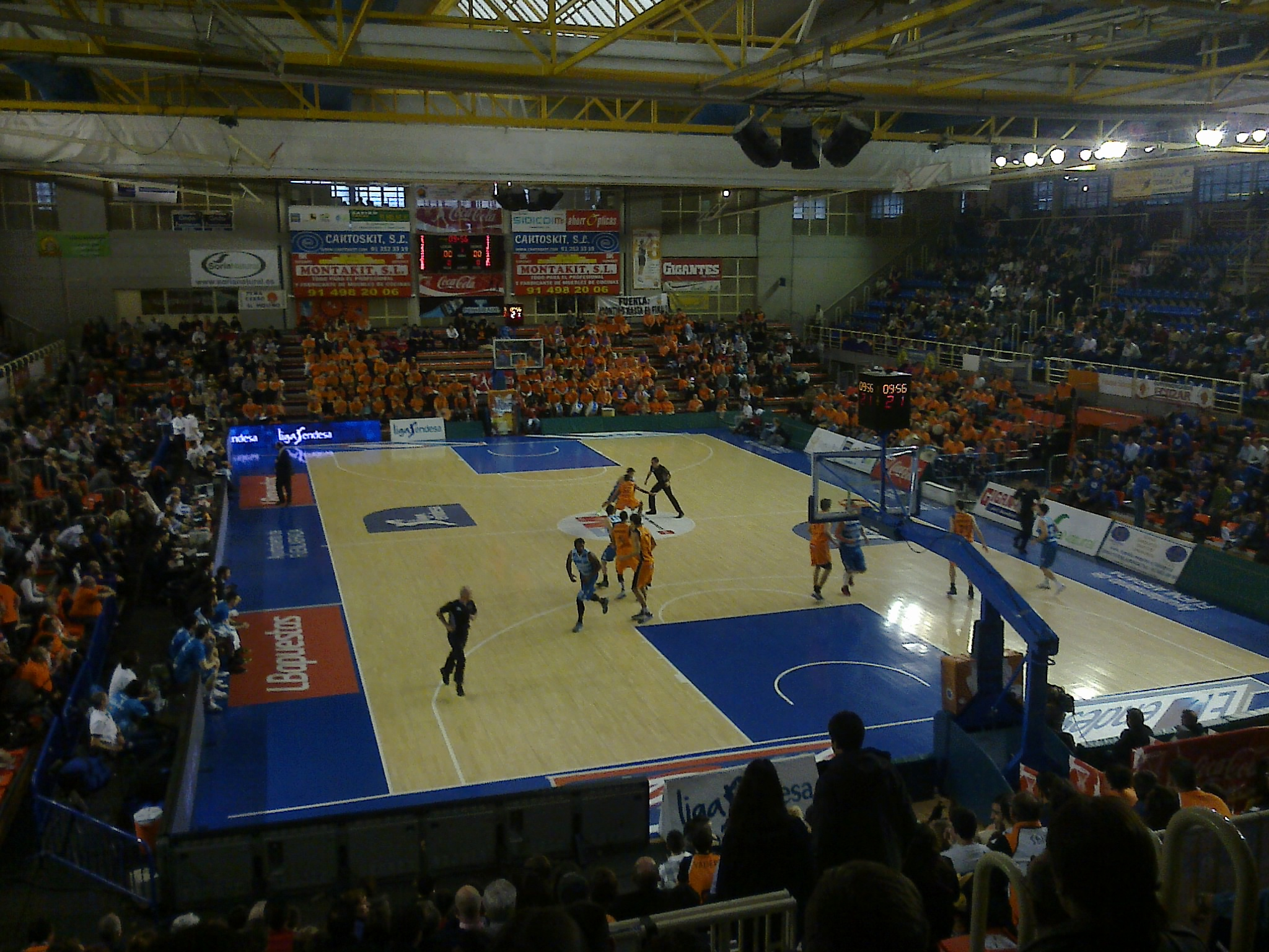 Polideportivo Fernando Martín in Fuenlabrada, Spain, during the Liga ACB game between Fuenlabrada and GBC.